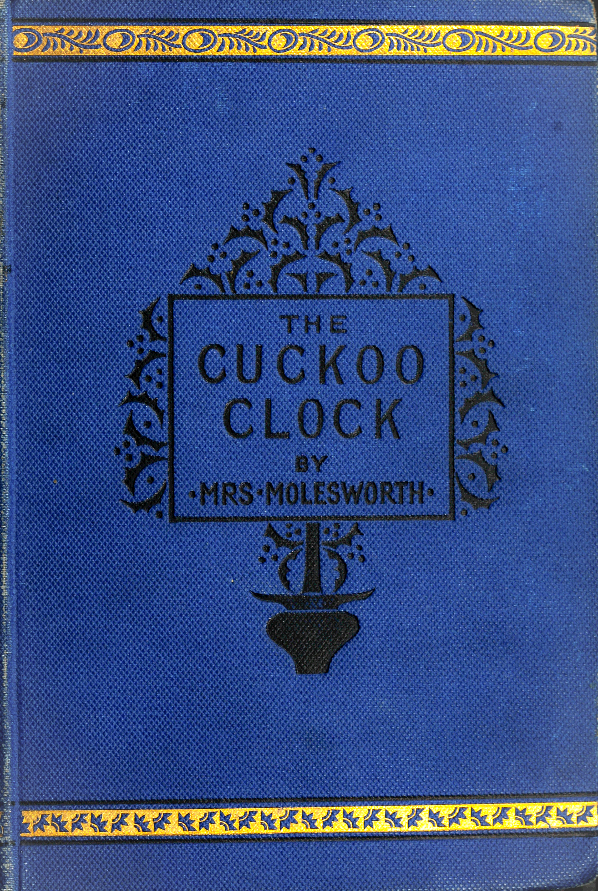 Cover page from scan of the book The Cuckoo Clock (1882) written by Mrs. Molesworth and illustrated by Walter Crane